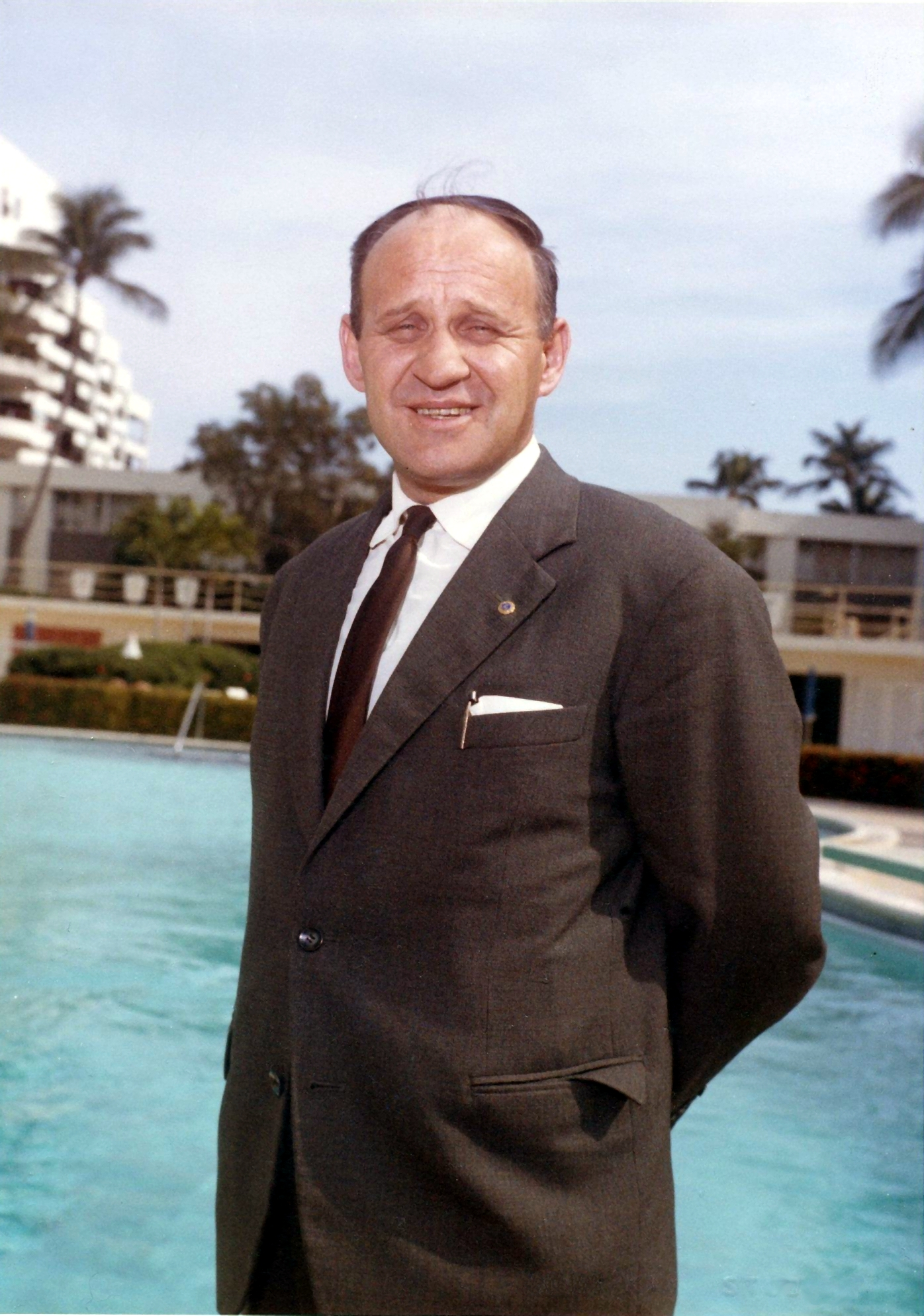 Finnish writer Väinö Linna in Palm Beach, Florida, on a trip in November 1963.